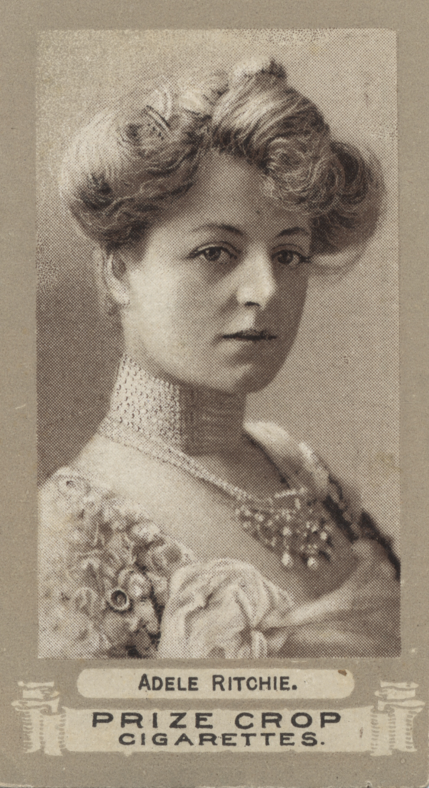 Actress Adele Ritchie displayed on a "Prize Crop" Cigarettes card, by Stephen Mitchell & Son company.